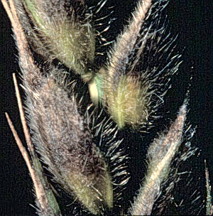 Necrosis on wheat Phaeosphaeria nodorum (syn. Stagonospora nodorum)